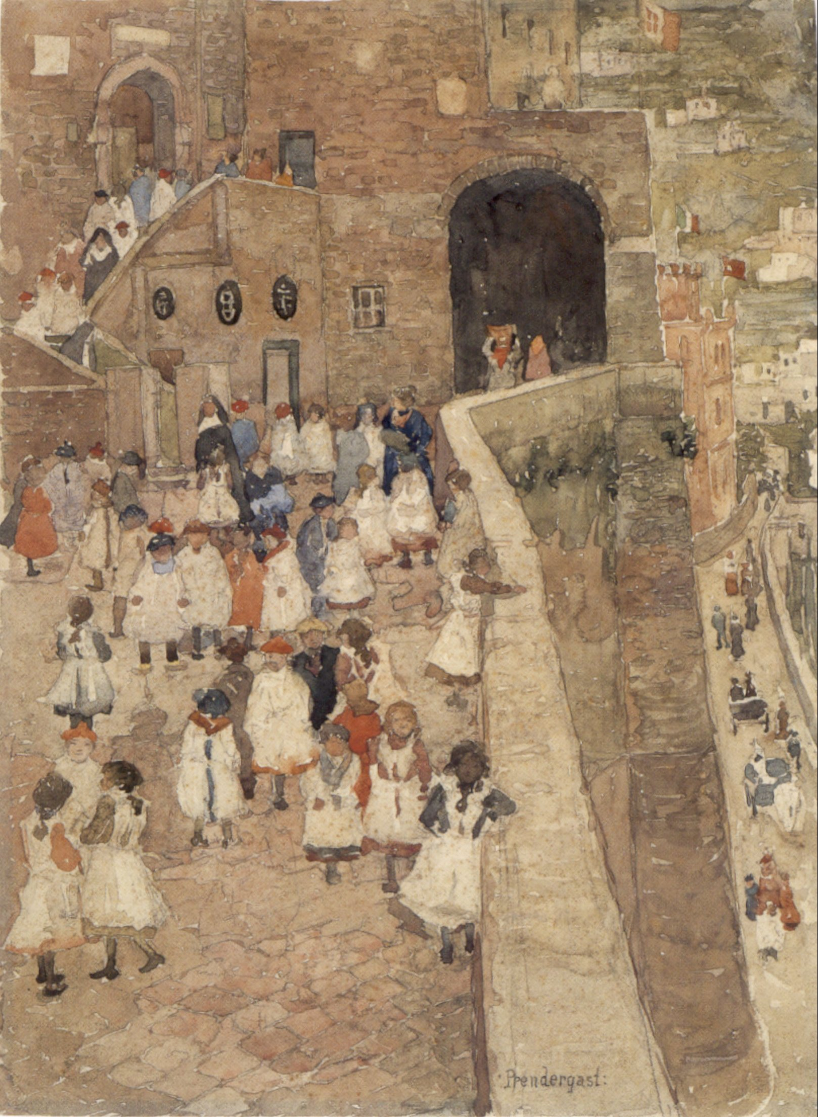 Courtyard Scene, Siena, watercolor and graphite by Maurice Brazil Prendergast, c. 1898-9 Honolulu Museum of Art Native nameHonolulu Museum of ArtLocationHonolulu, USACoordinates21° 18′ 14″ N, 157° 50′ 54″ W Established1922Web page control : Q128316 VIAF: 818145858110423022196 ISNI: 0000 0004 4661 5836 NRHP: 72000415 SUDOC: 185174566 institution QS:P195,Q128316